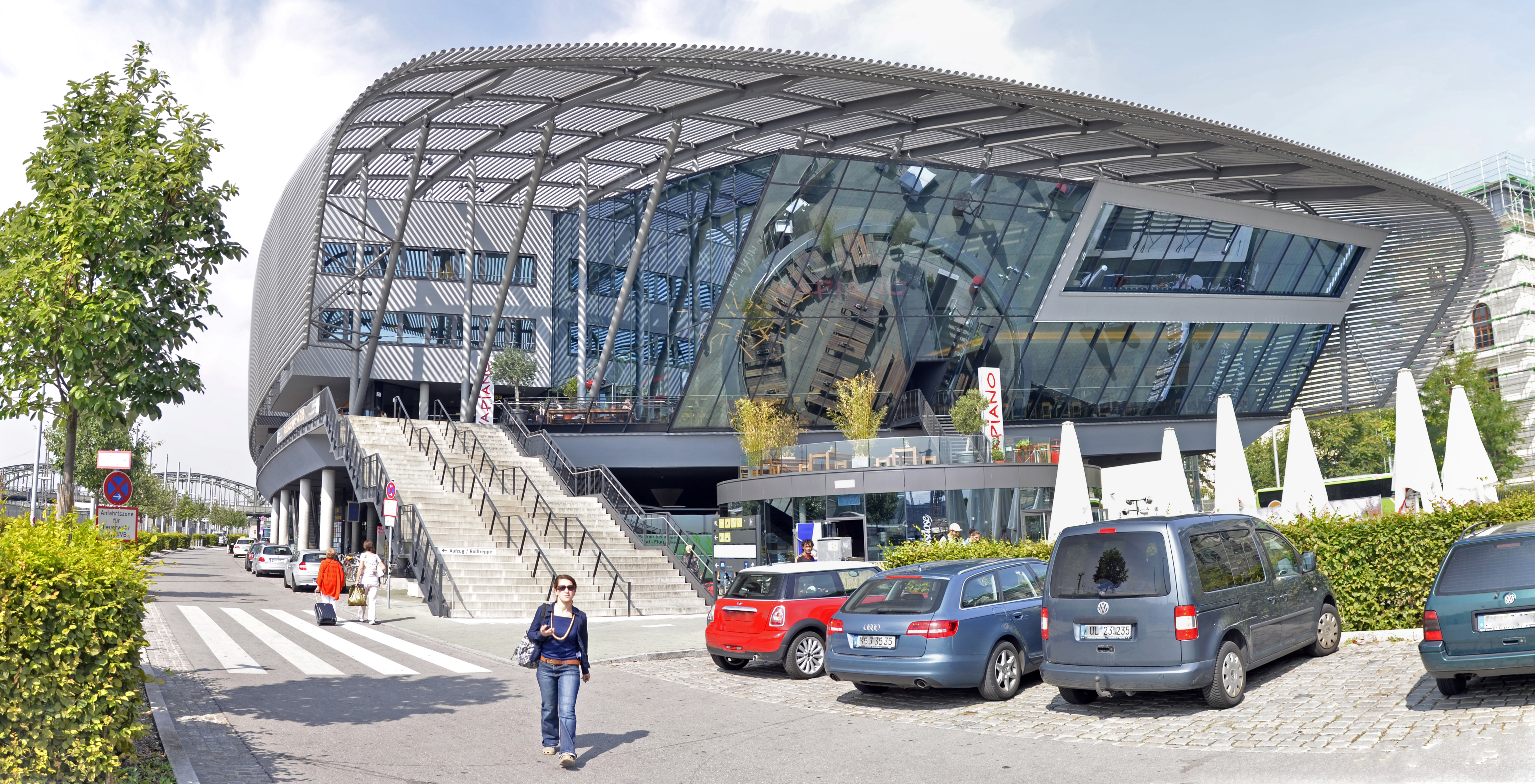 ZOB Central bus station in Munich